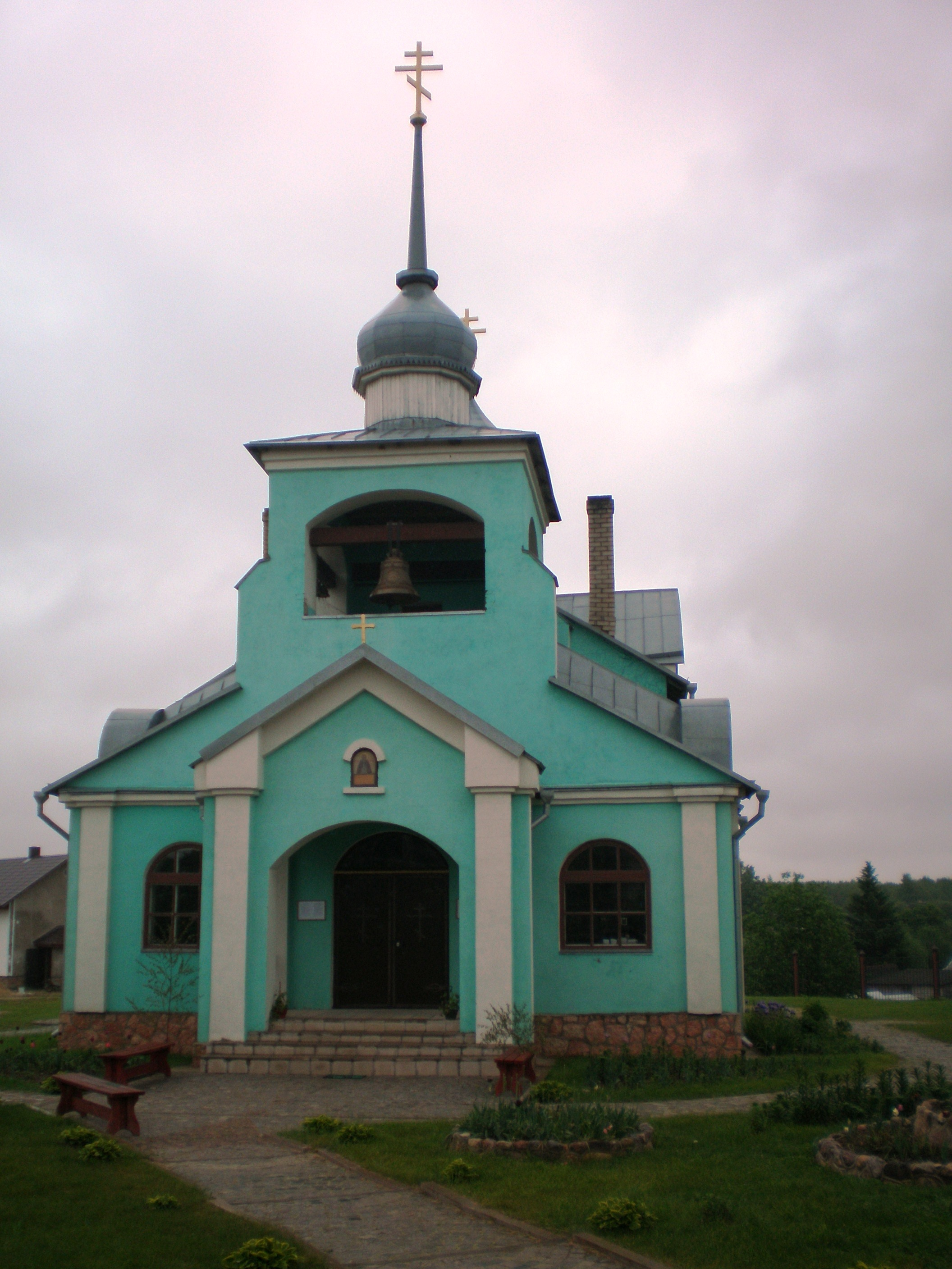 Orthodox church, Pustoshka, Pskov Oblast, Russia